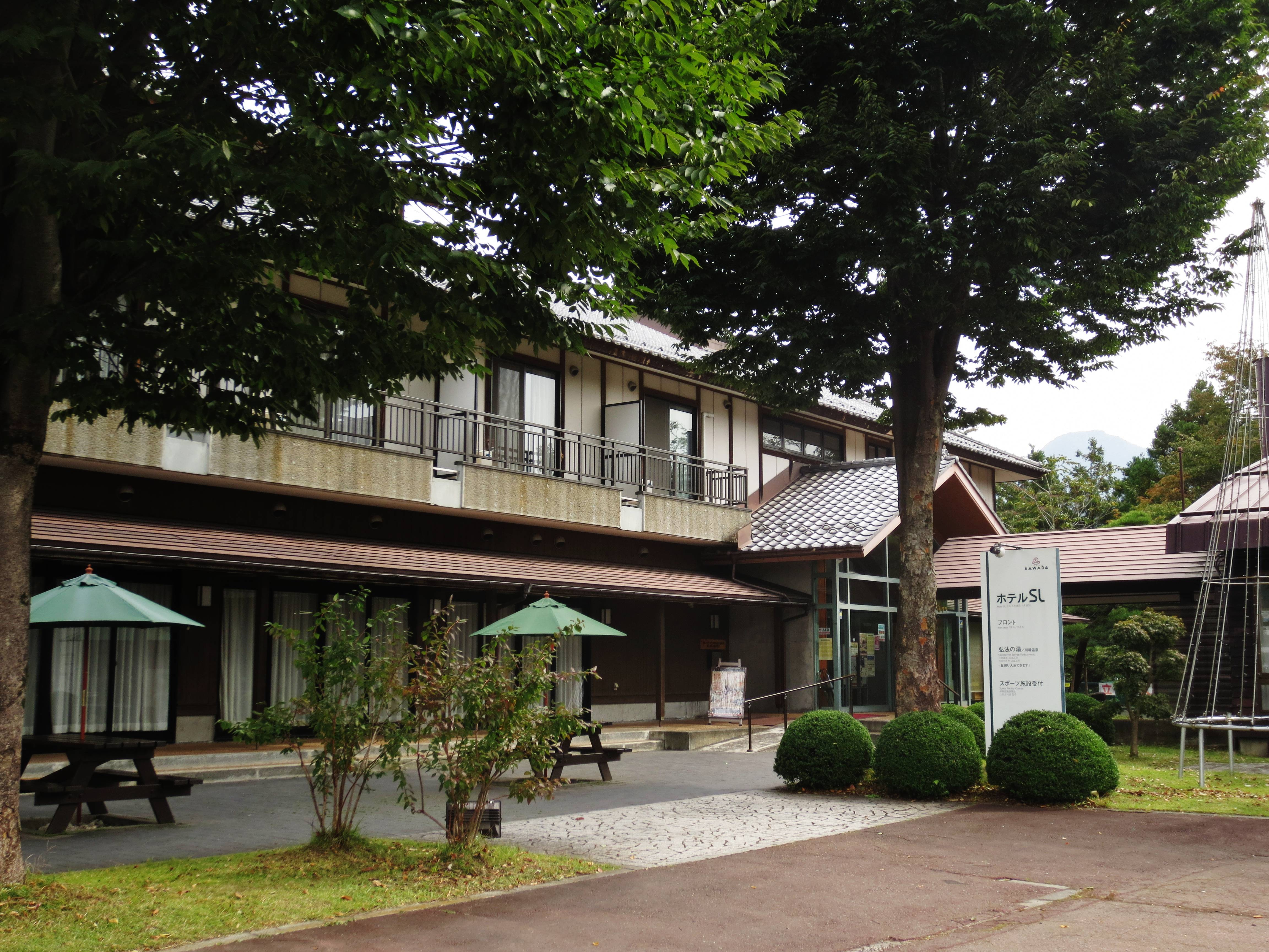 Hotel SL.